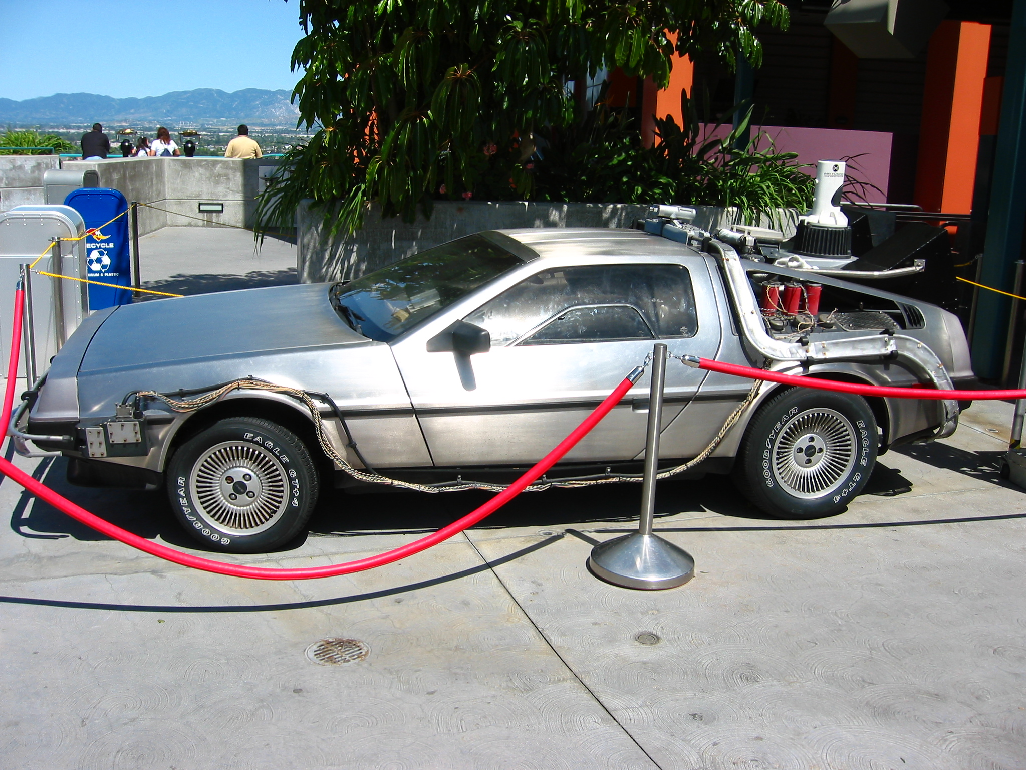 The DeLorean Time Machine in "Back to the Future"